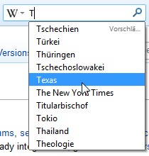 Screenshot of Mozilla Firefox 23 showing the search bar with opened autocomplete window (for de.wikipedia).